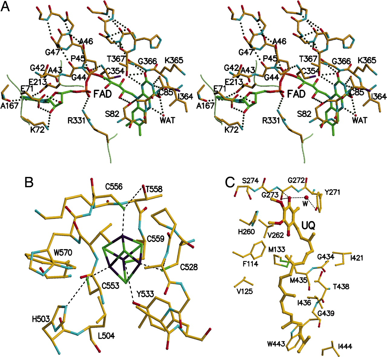 Functional domains of etf oxidoreductase (PDB: 2GMH)